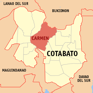 Map of the Cotabato showing the location of Carmen